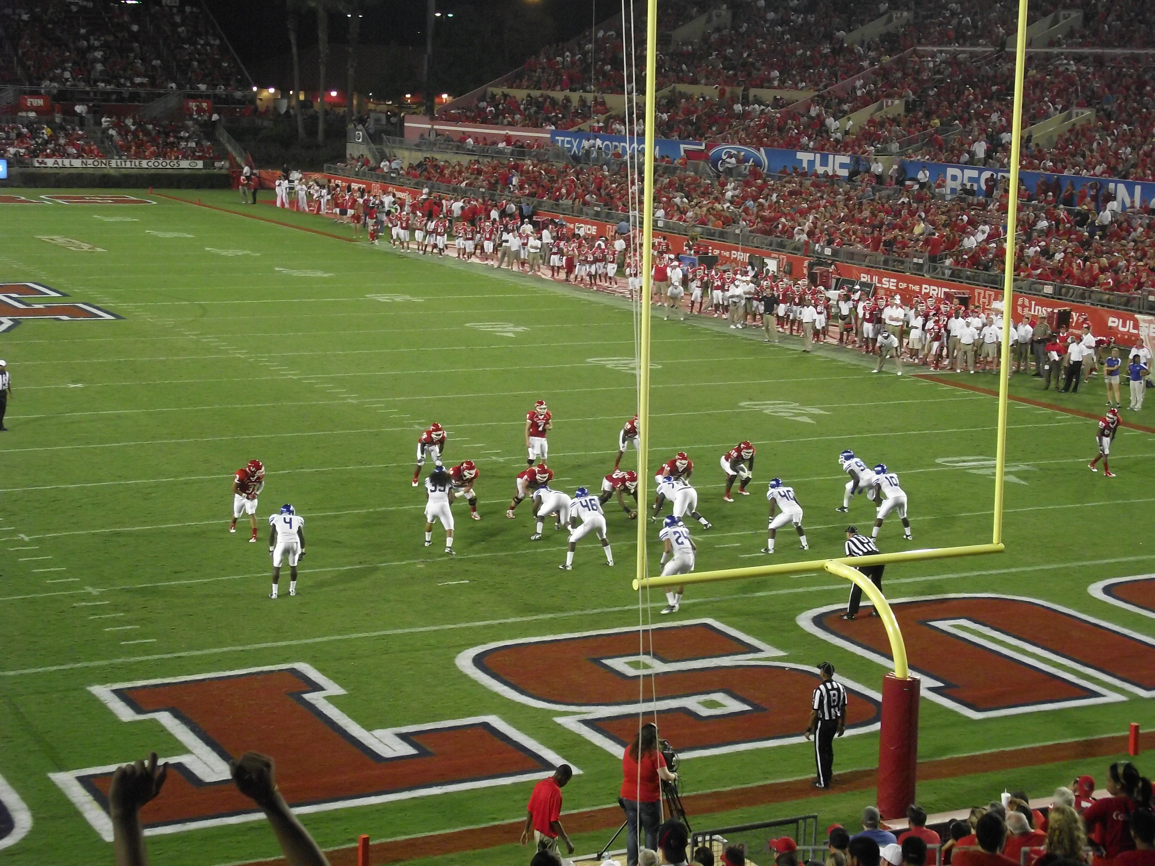 The 2011 Houston Cougars football team competes against the Georgia State Panthers at Robertson Stadium in Houston.